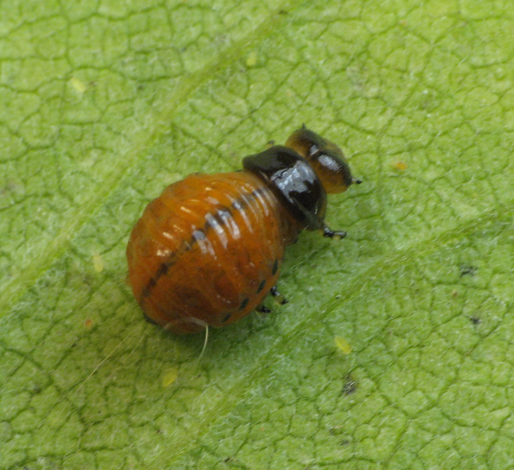 Larva of swamp milkweed beetle, Labidomera clivicollis. Schuylkill Nature Center, Philadelphia County, Pennsylvania, USA.